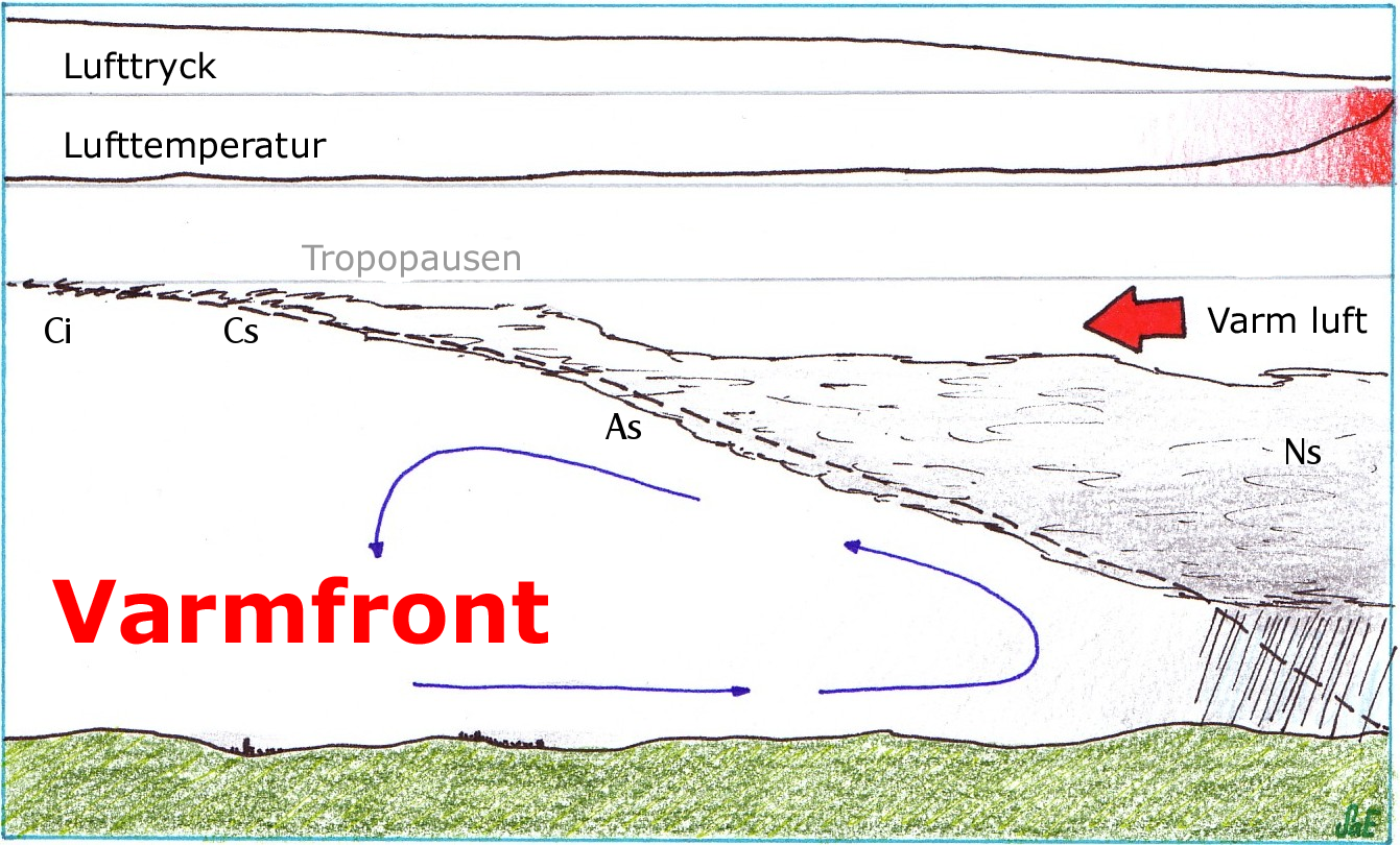 Swedish version of File:Warmfront3.png